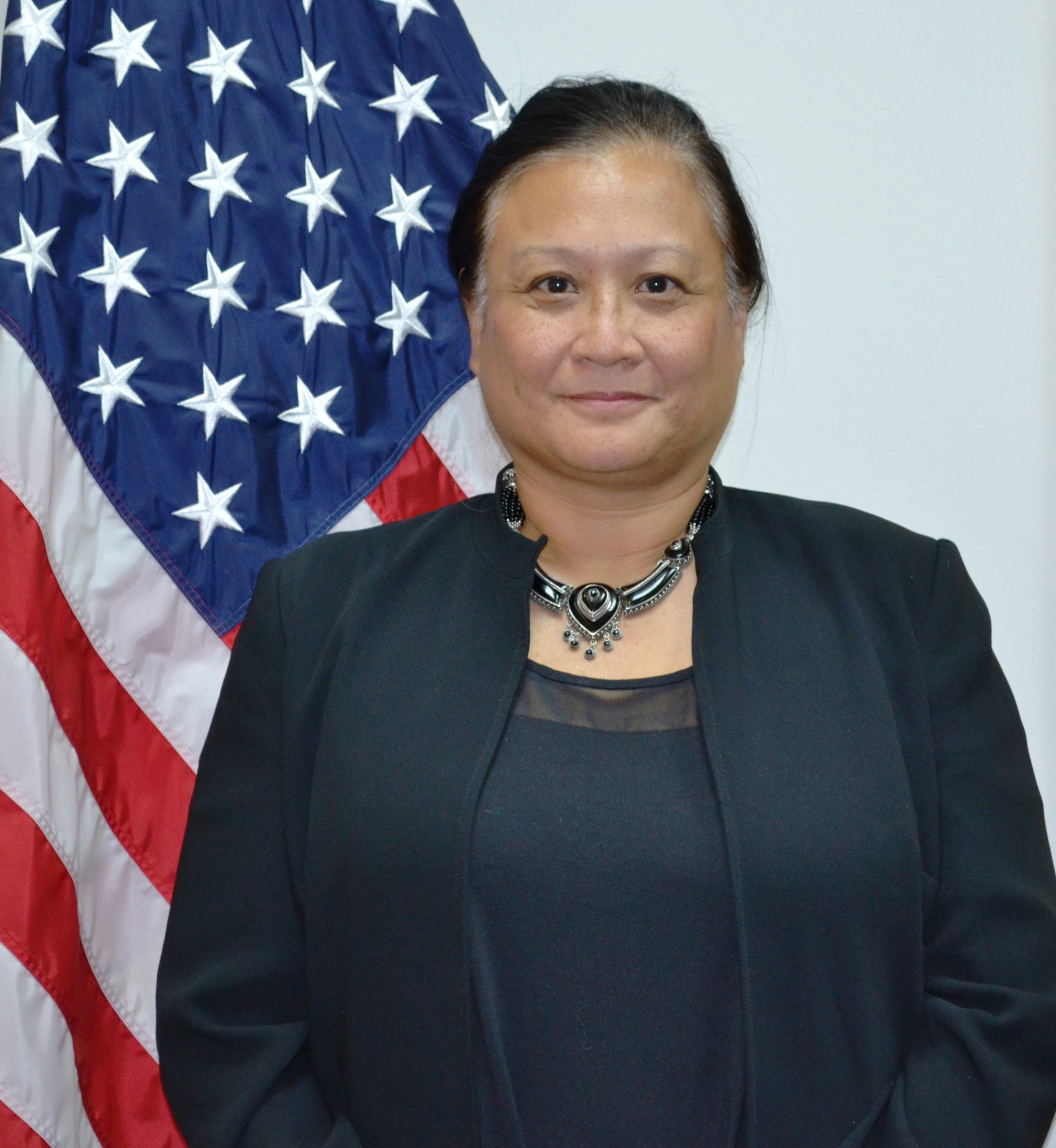 CG of Thessaloniki Rebecca A. Fong